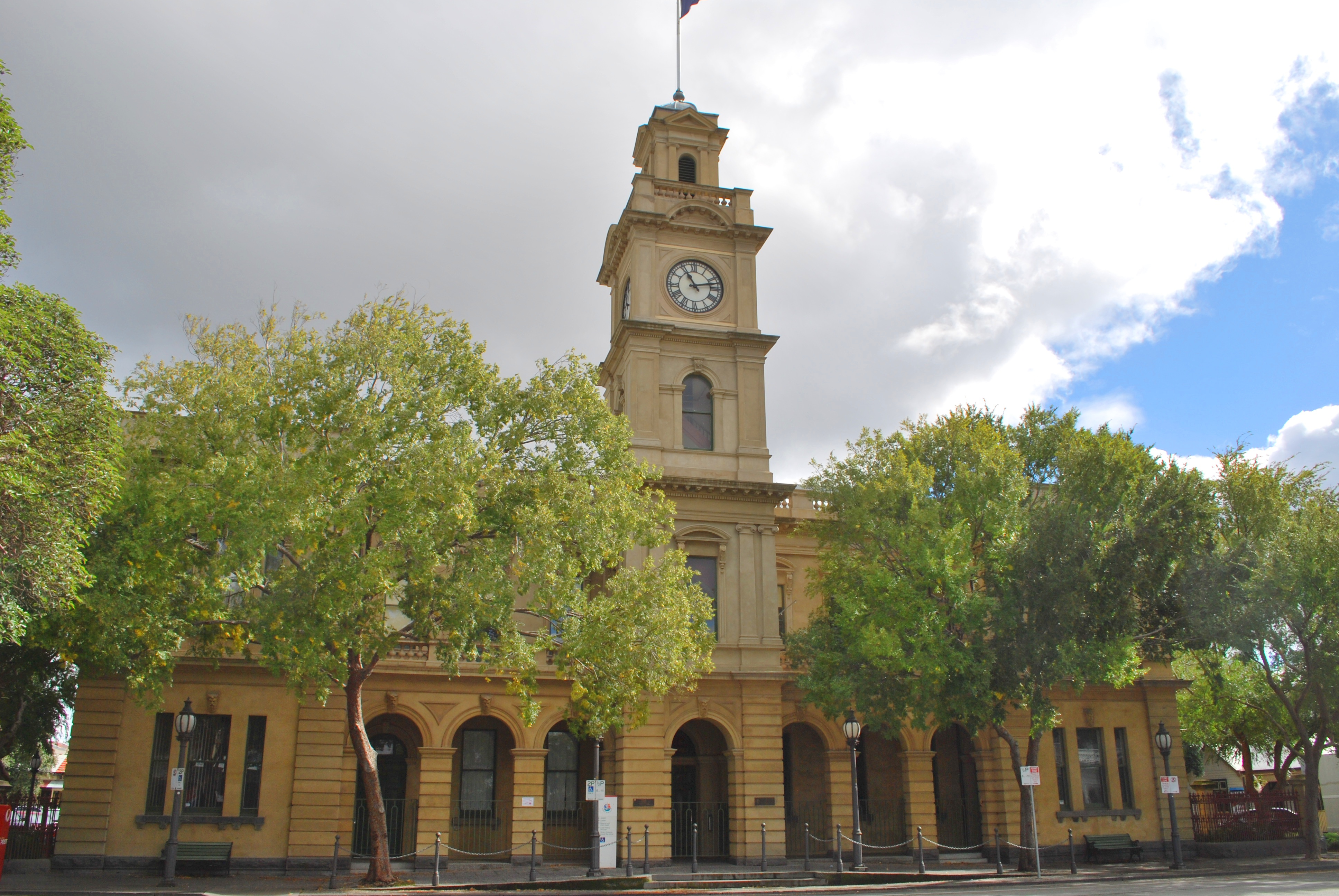 Town hall at Port Melbourne, Victoria